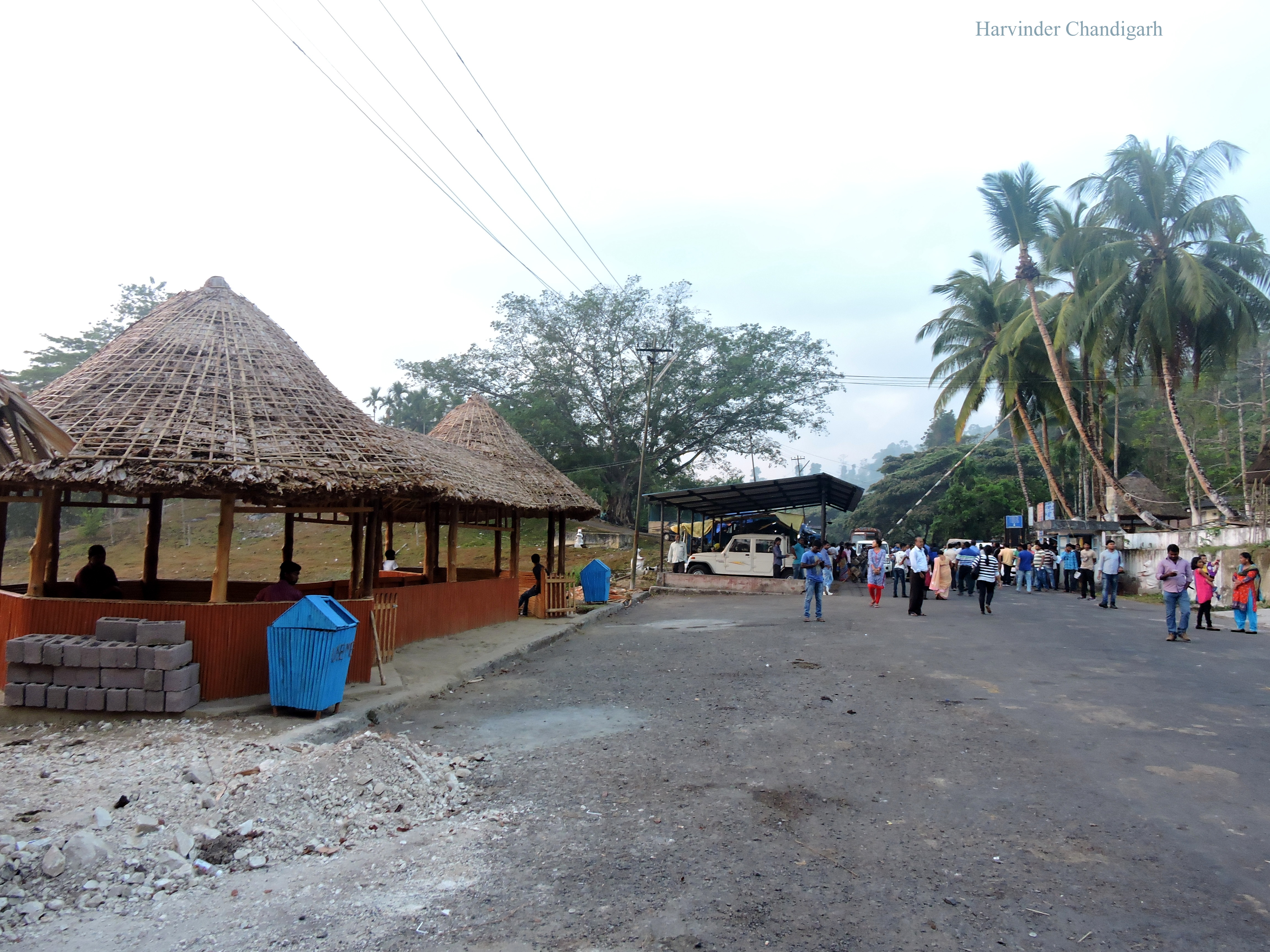 Entry point to Jarwa reserve forest, Andaman Islands, India